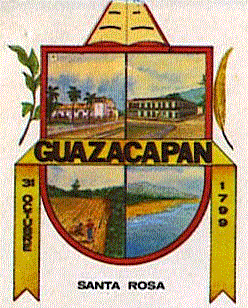 escudo de guazacapan coat of arms of guazacapan